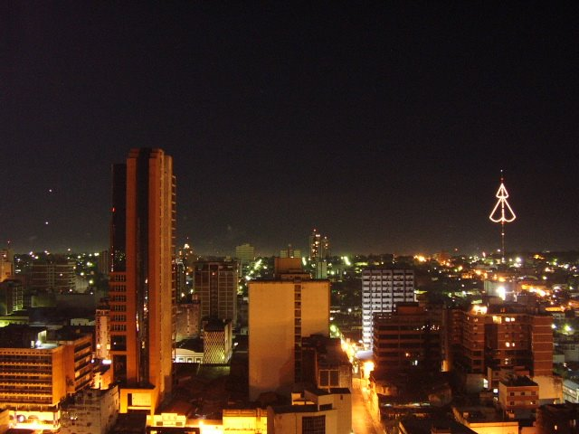 asuncion at night